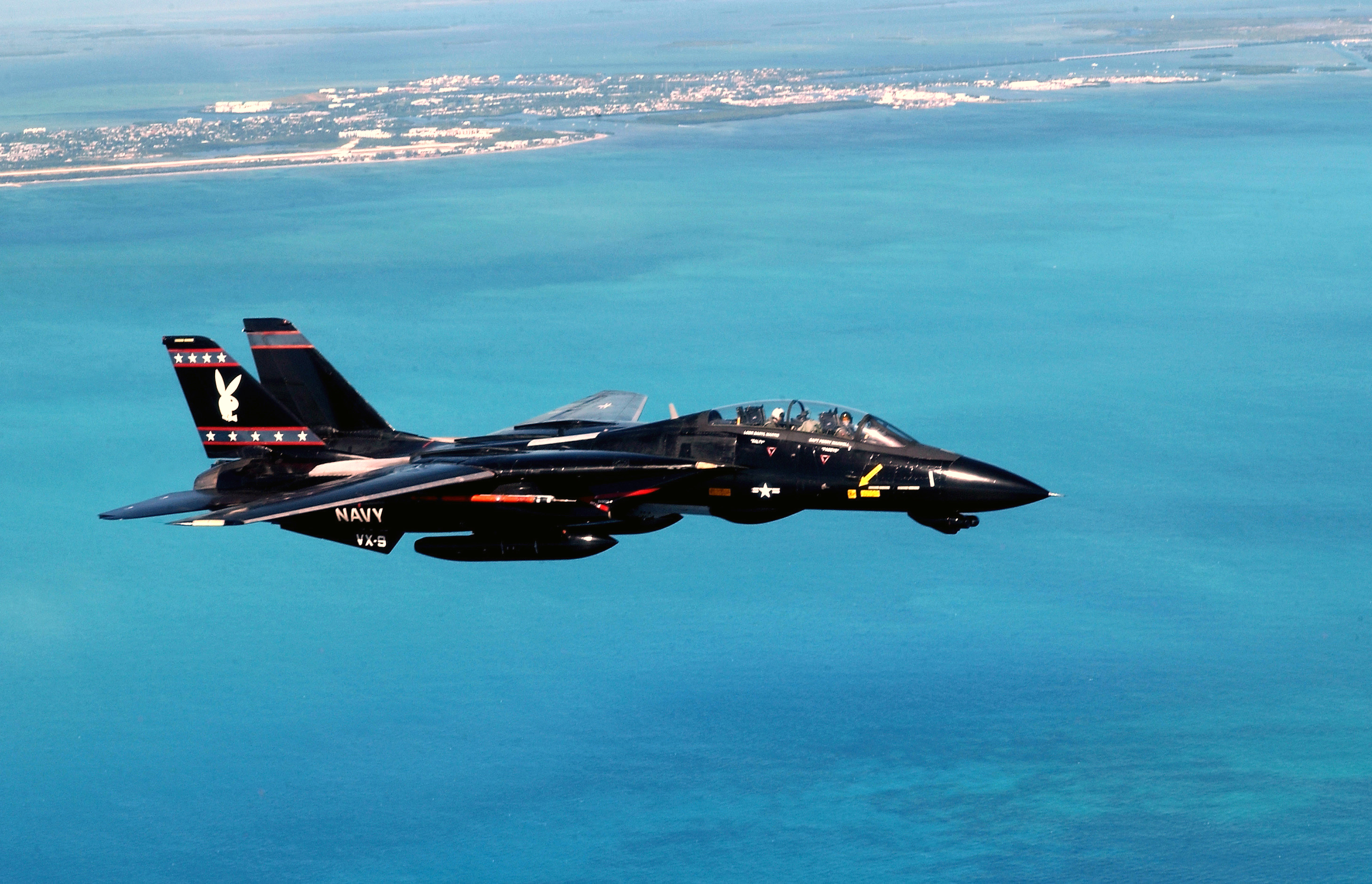 Atlantic Ocean (Oct. 17, 2002) -- A U.S. Navy Grumman F-14 “Tomcat” from Air Development Squadron VX-9 Vampires heads back to Key West Naval Air Station (NAS) after intense “dog fight” training over the Atlantic Ocean during exercise Cope Snapper 2002. Cope Snapper is a multi-aircraft exercise that engages dissimilar air combat training with on fighter data link and joint operations with the Navy. The members involved in Cope Snapper consist of the 159th Fighter Wing from Louisiana, the 169th AGS McEntire Air National Guard from South Carolina, and the Navy's F/A-18 “Hornet” and F-14 “Tomcat” fighter jets.